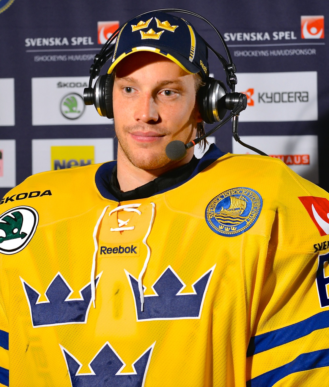 Anders Nilsson during Oddset Hockey Games against Russia (2-0) at the Ericsson Globe in Stockholm on May 4th, 2014.